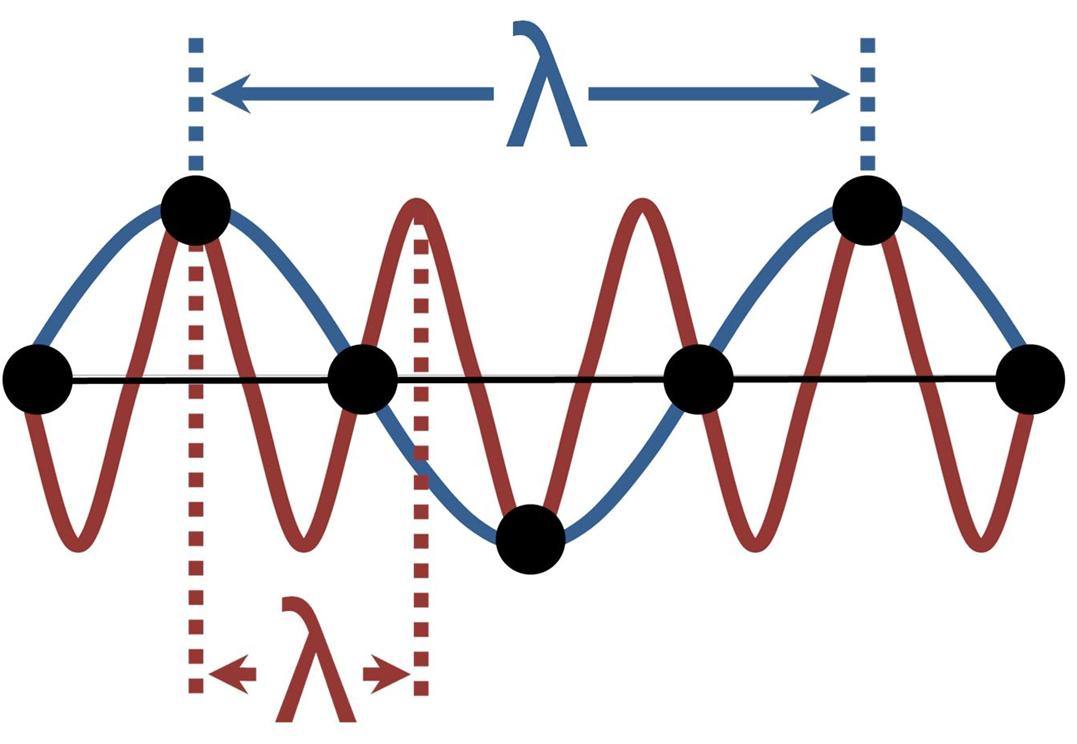 Sinusoidal wave in a lattice, showing two possibilities for the wavelength